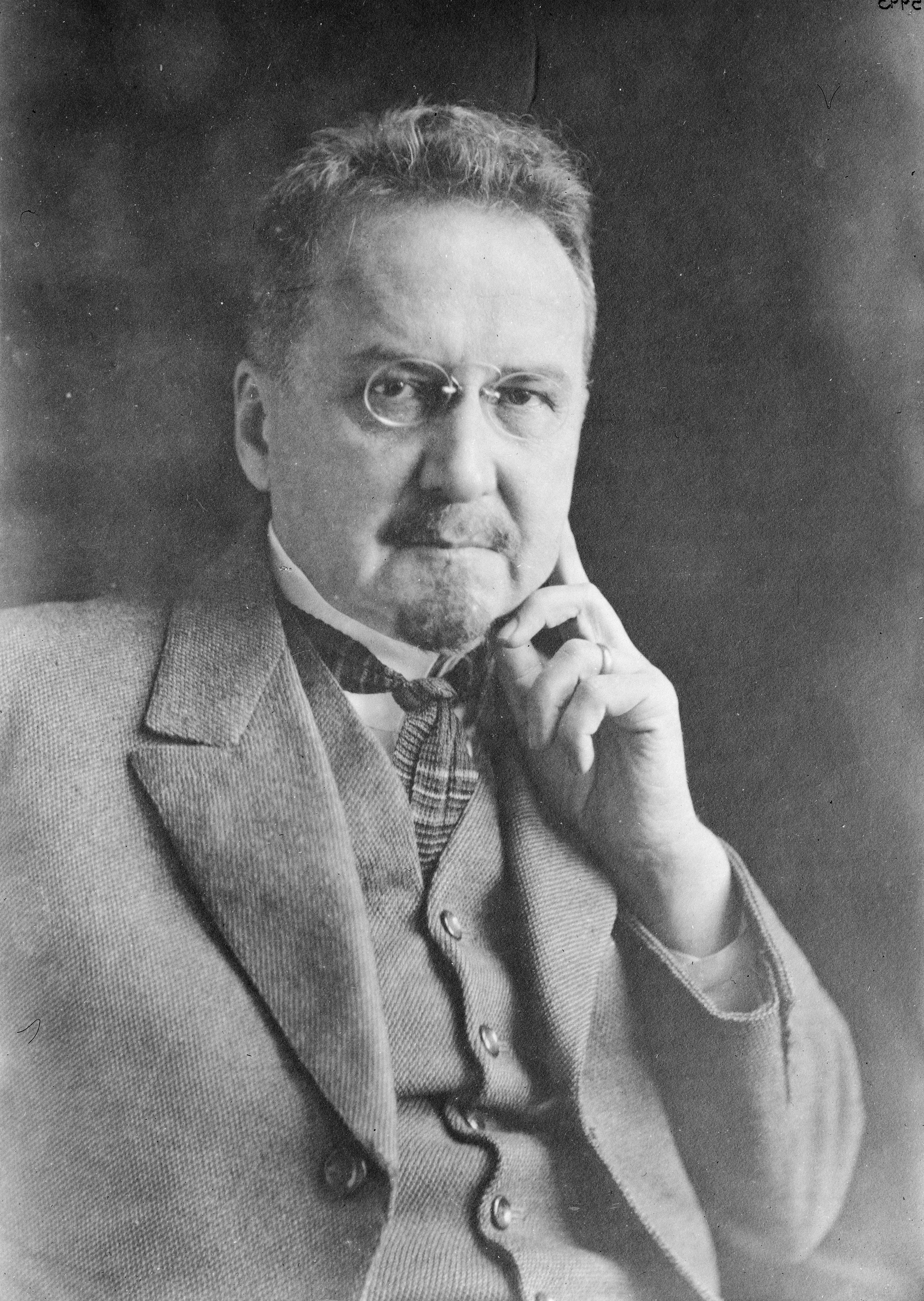 Photograph of the Finnish ethnologist Uuno Taavi Sirelius (1872–1929).